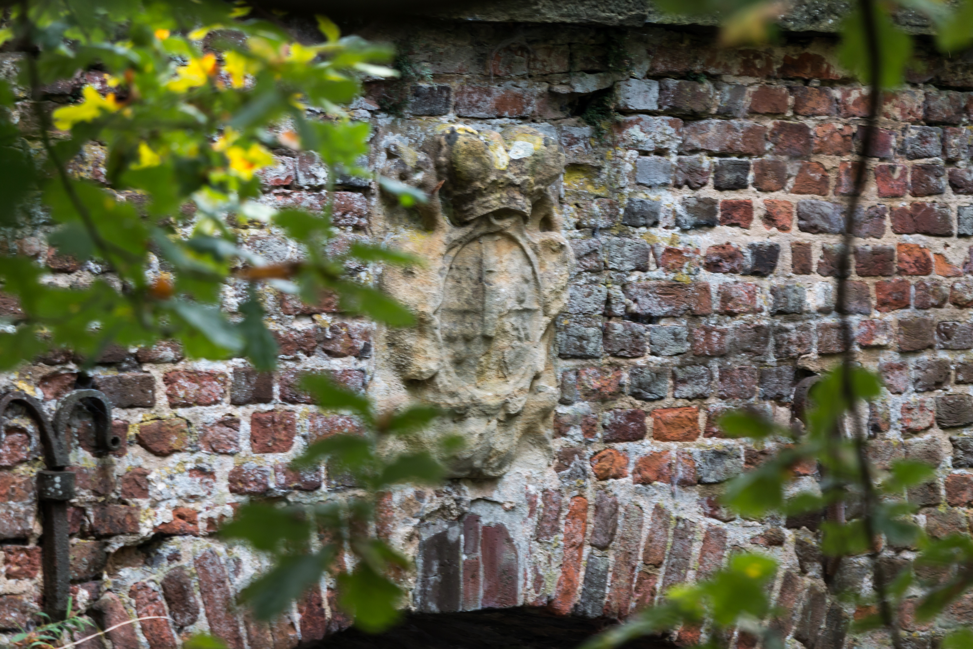 Große Teichsmühle, Hausdülmen, Dülmen, North Rhine-Westphalia, Germany This image shows a heritage building in Germany, located in the North Rhine-Westphalian city Dülmen (no. 90).